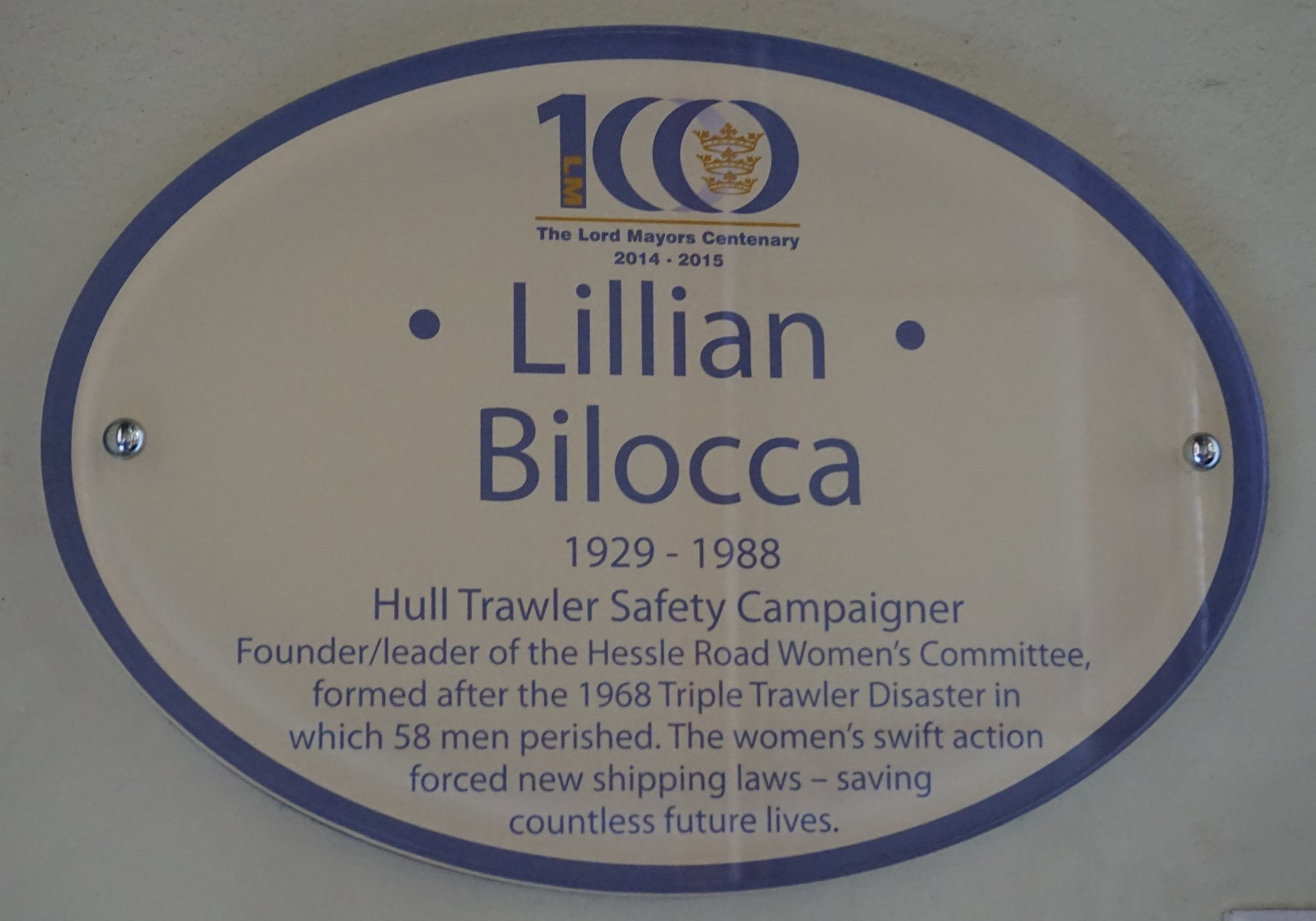 Plaque to Lillian Bilocca. At Hull's Maritime Museum. One of 100 Lord Mayors Centenary Plaques to be unveiled in the coming year.